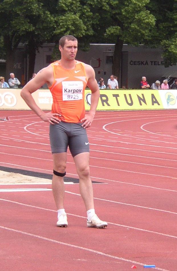 Athlete Dmitriy Karpov of Kazakhstan prepares for his attempt in long jump during men's decathlon at 4th edition of the TNT - Fortuna Meeting (IAAF World Combined Events Challenge Meeting, Sletiště Stadium, Kladno, Czech Republic, 15 June 2010, 13:26).